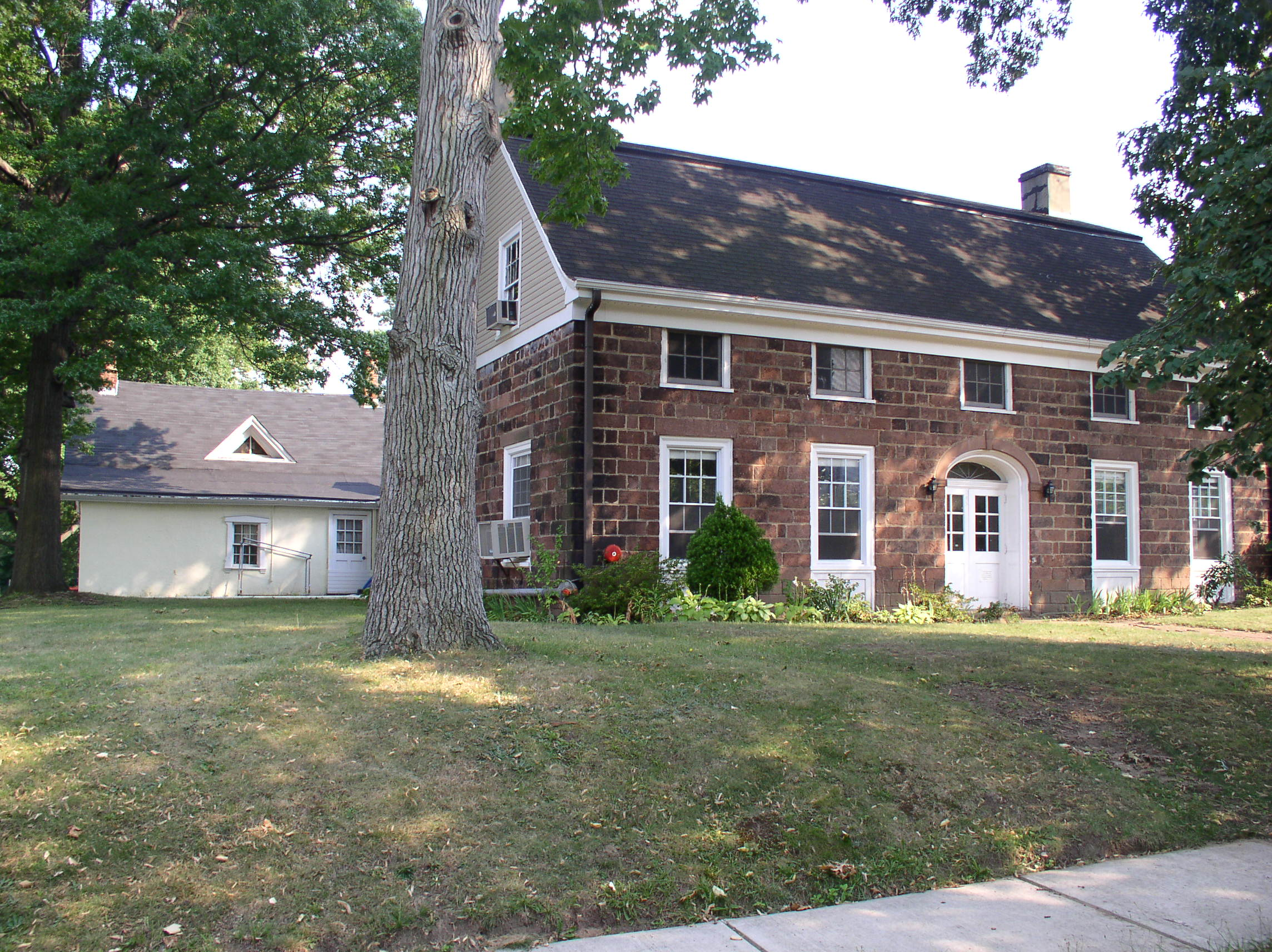 The Ackerman-Outwater house with the Yereance-Kettel house in the background.